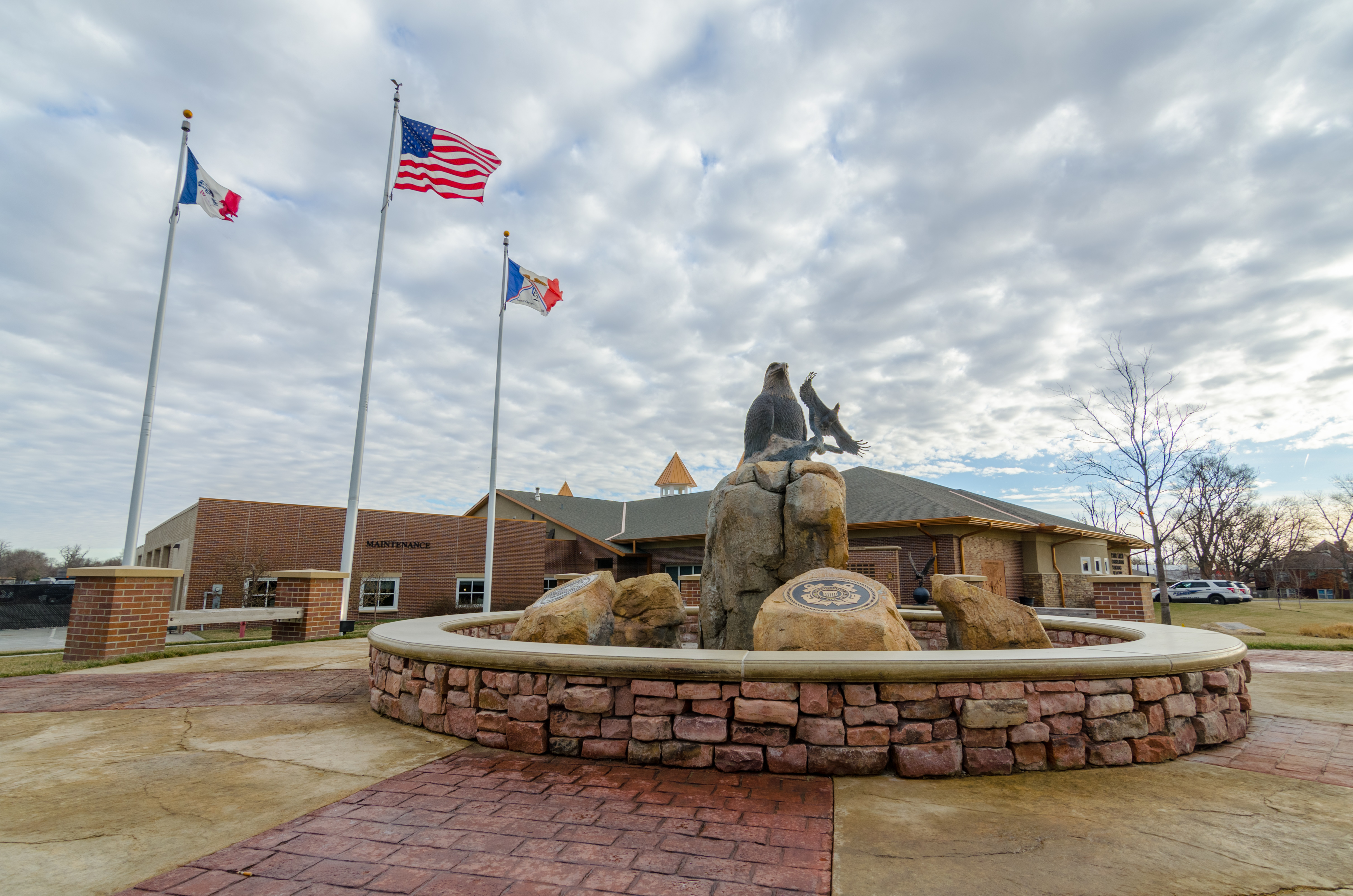 City Offices in Carter Lake, Iowa